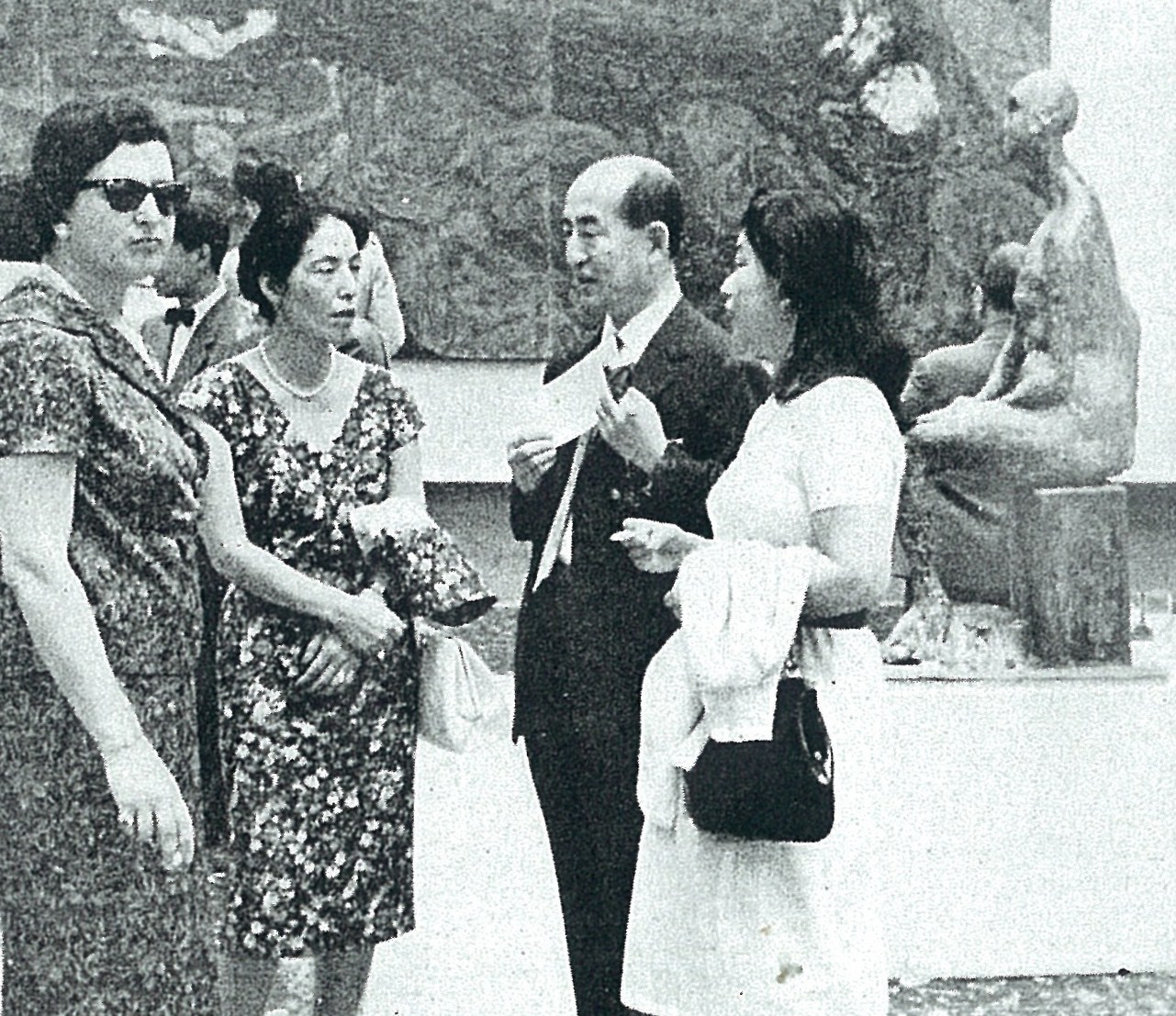 (Left, male)Yozo HAMAGUCHI (1909-2000) is a Japanese woodblock artist. (Right, female) Keiko MINAMI (1911-2004) is a Japanese female woodblock artist. They are married couple.